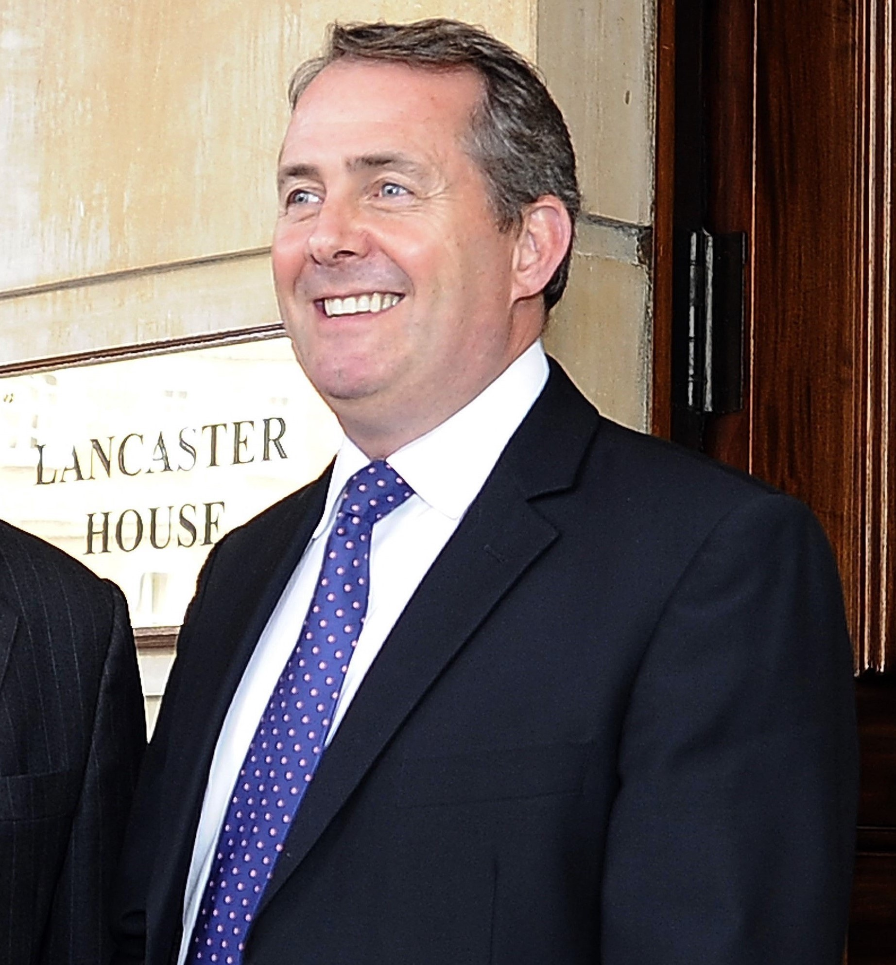 100608-F-6655M-002 Secretary of Defense Robert M. Gates poses for photos with British Defense Secretary Liam Fox at the Lancaster House in London on June 8, 2010. DoD photo by Master Sgt. Jerry Morrison, U.S. Air Force. (Released)